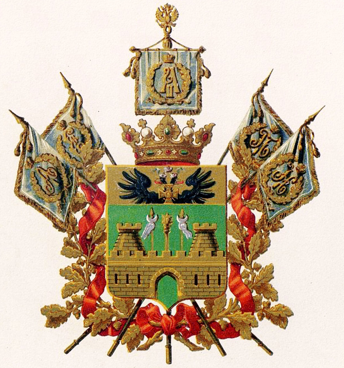 Official Russian Empire coat of arms Kuban Oblast. Герб Российской Империи Кубанской области в Гербовнике Бенке. Утверждён Императором Всероссийским Александром Вторым в 1874 году.